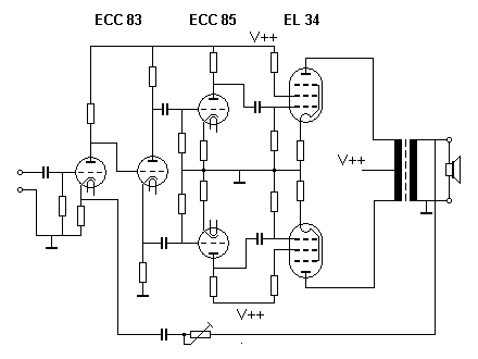 Schematic of a push-pull tube poweramplifier for audio